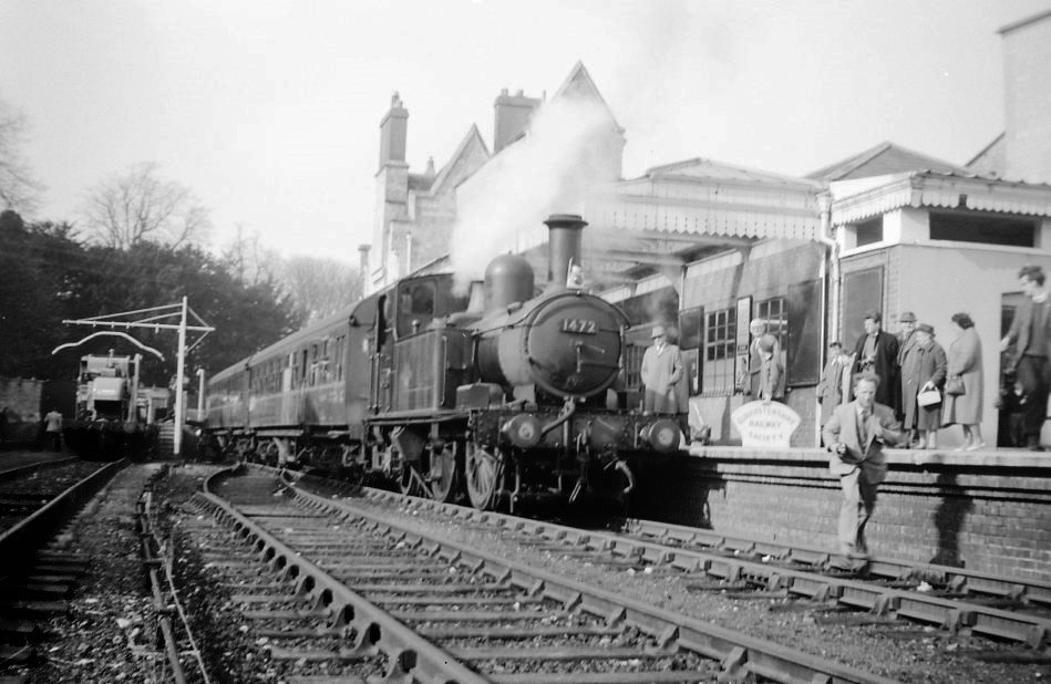 GWR 1400 class 1472 with the last steam-hauled service at Cirencester Town railway station.